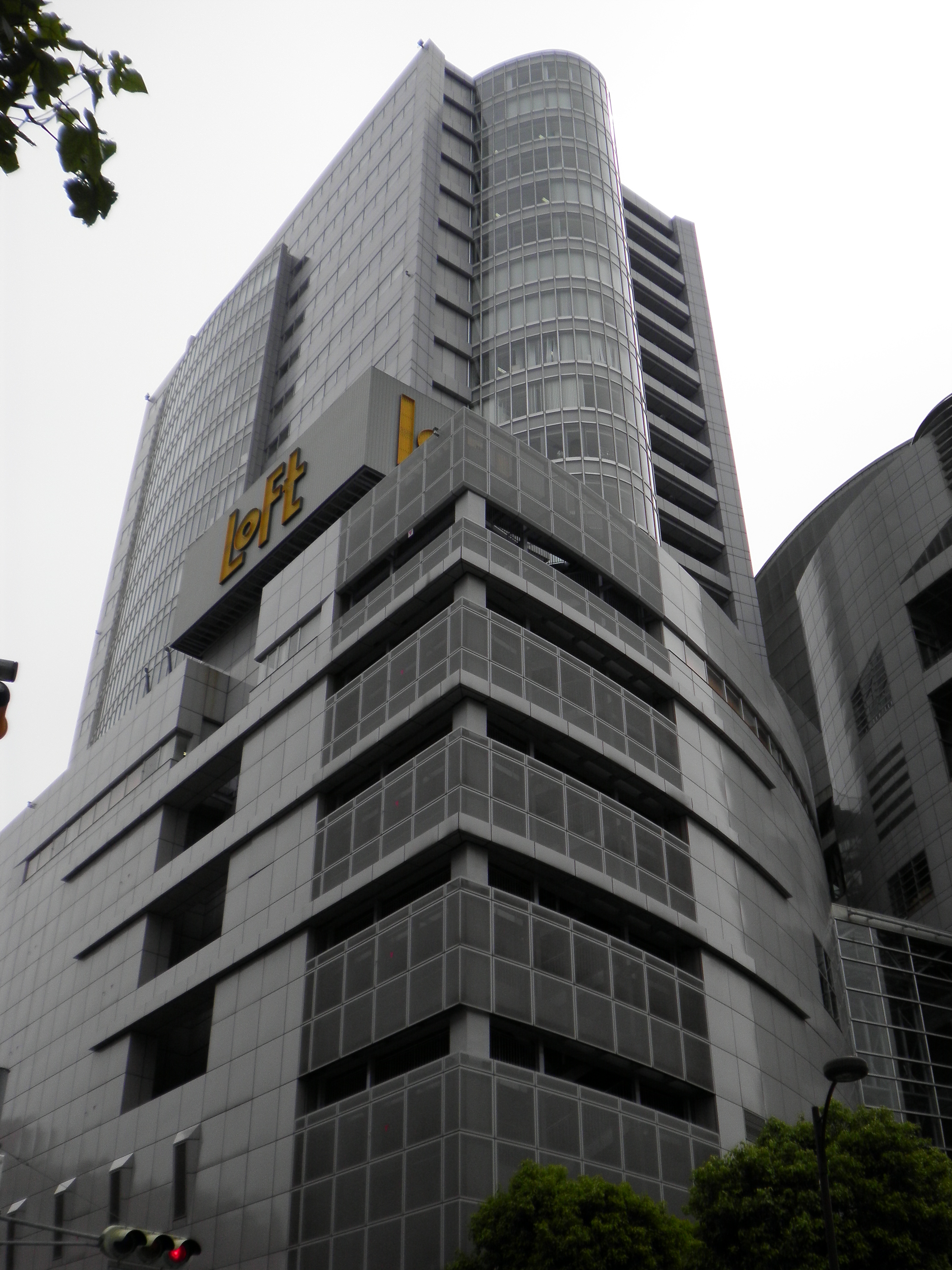 Loft_Nagoya_in_Nadya_park